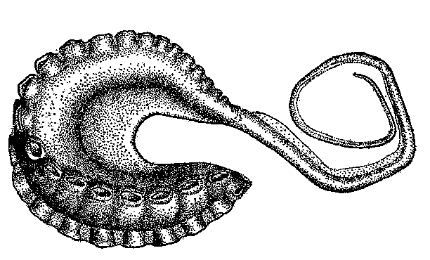 Argonauta bottgeri, hectocotylus of male